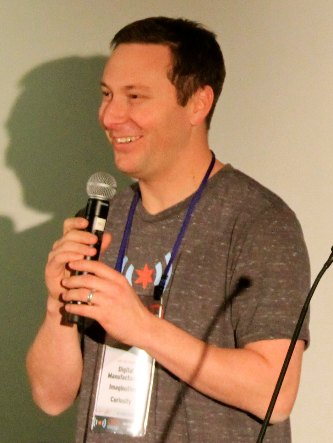 Zach Kaplan and Brian Fitzpatrick at ORD Camp 2014